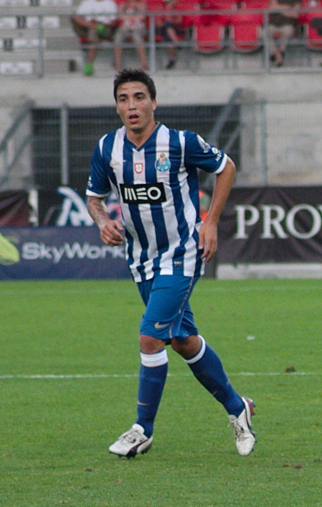 Josué Pesqueira playing for F.C. Porto in 2013